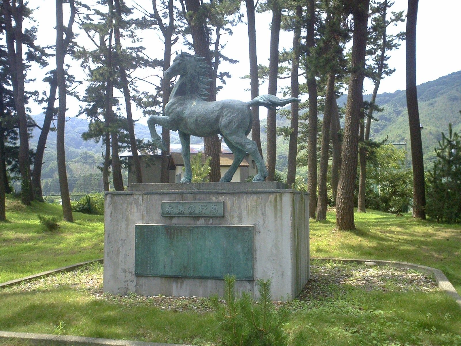 Wild Horse Statue (in Awashima) - 野生の馬（粟島浦村）